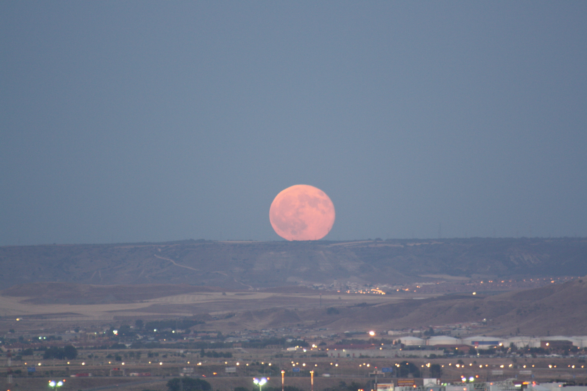 The Moon in Madrid (Spain). Image taken from Parque Juan Carlos I (a park).